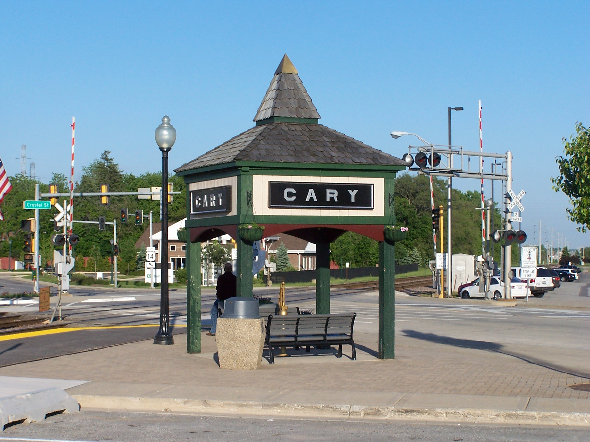 Cary, Illinois - Town Sign